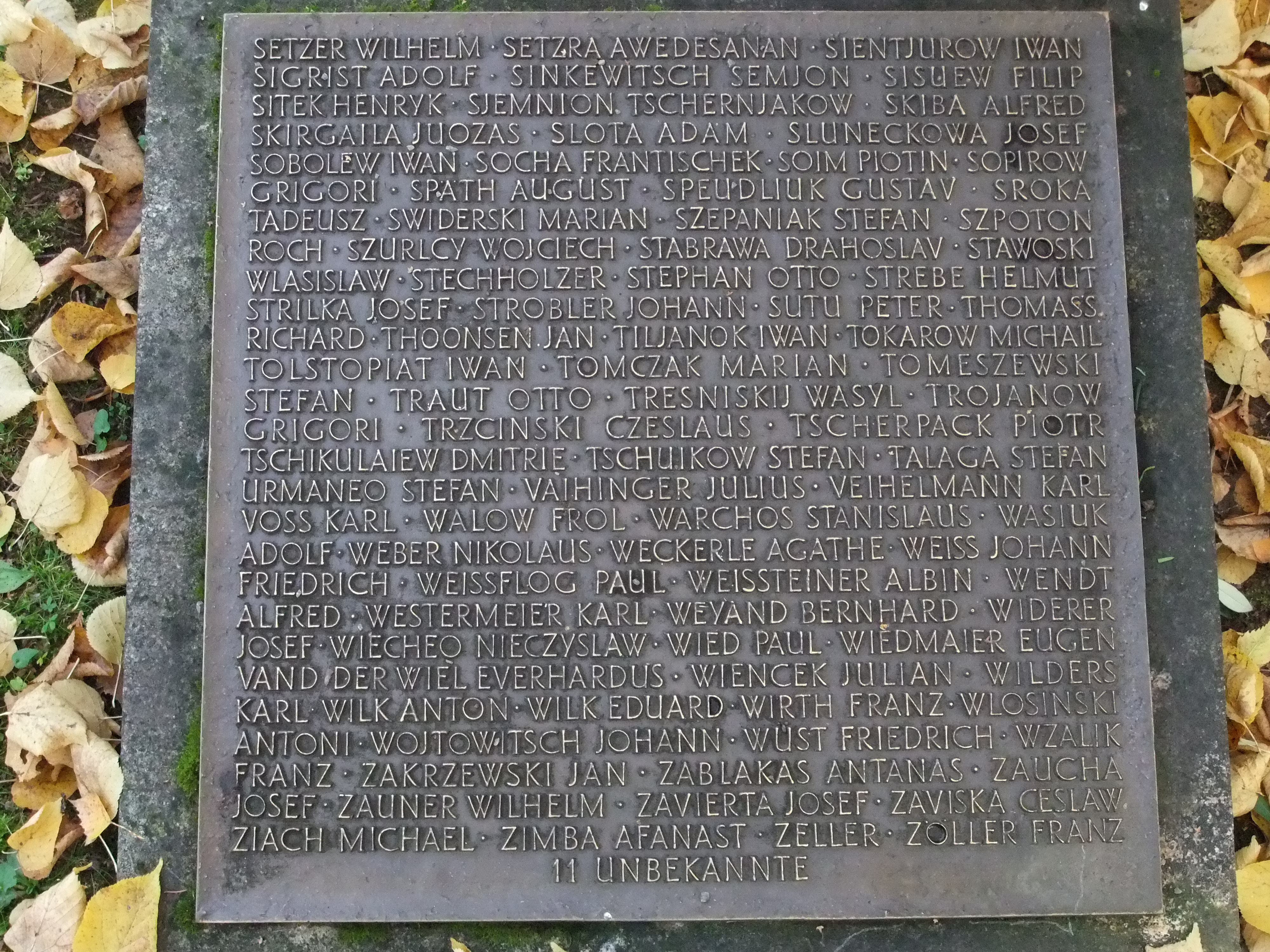 Name plaque 6 on Gräberfeld X of Stadtfriedhof Tübingen.